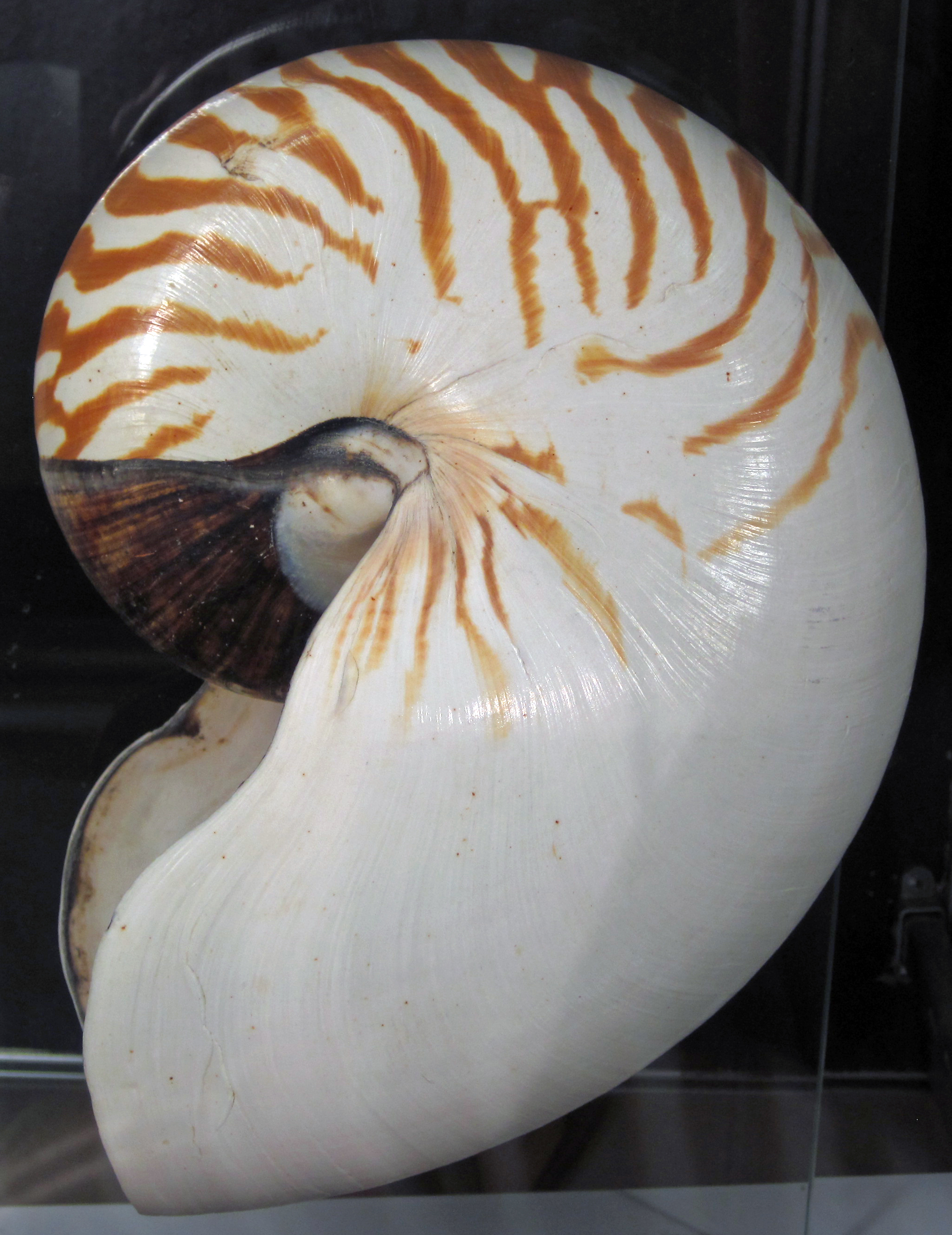 Nautilus pompilius Linnaeus, 1758 - chambered nautilus shell (BMSM 73298, Bailey-Matthews Shell Museum, Sanibel Island, Florida, USA) This shell is from one of only 6 living species of an entire group of molluscs - the nautiloids. Nautiloids are basically a squid in a shell. Most modern squids do not have an external hard shell, but the chambered nautilus does. The shell is composed of aragonite (CaCO3 - calcium carbonate). In the fossil record, most nautiloids had a long, straight, slightly tapering shell. Some fossil forms had slightly curved or open coiled or tightly coiled shells. The modern chambered nautilus shell is tightly coiled. All nautiloid shells are/were hollow, but they were separated into many chambers by curvilinear walls. A tube of tissue called the siphuncle runs through the shell's chambers - it passively pumps gas into or out of the chambers. Increased gas content within the shell's chambers results in a low-buoyancy body, and the organism rises in the water column. As water is added to the chambers by the siphuncle, the organism's body becomes heavier and it sinks. These changes do not occur quickly. Classification: Animalia, Mollusca, Cephalopoda, Nautiloidea, Nautilidae Locality: offshore from Broome, northwestern Australia More info. at: and